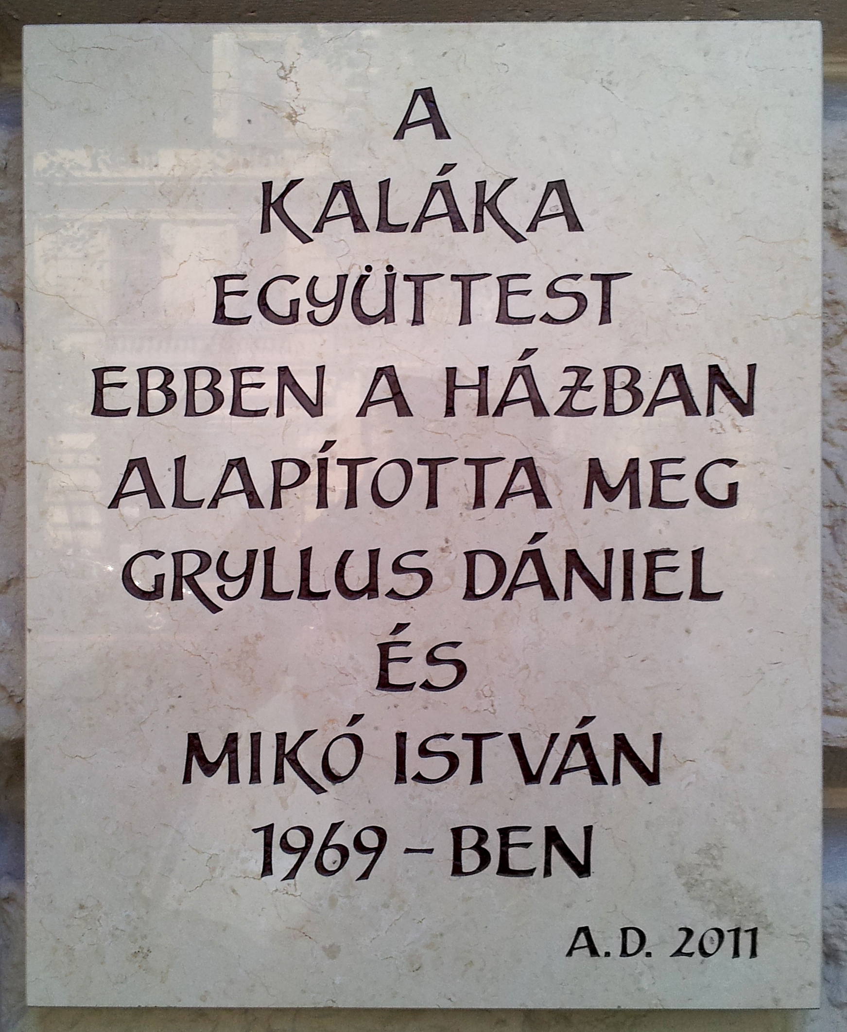 Commemorative plaque to the formation of the Hungarian musical group Kaláka. It is affixed on the wall of the former brewery Ádám where the act was done by Messrs. Dániel Gryllus and István Mikó November 26, 1969. (Budapest, District VI, Andrássy Avenue Nr 41)